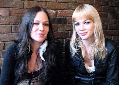 The Pierces, 2008.